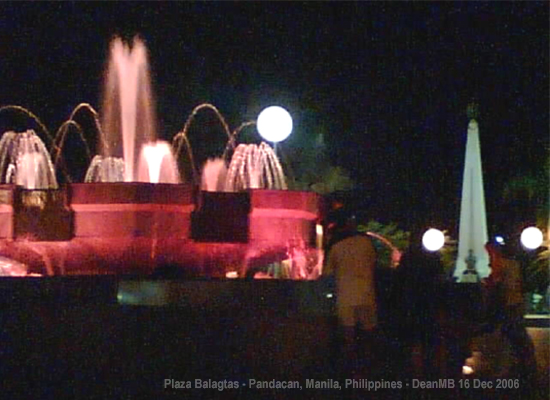 Plaza Balagtas at night with lighted water fountain and at the background, the original monument dedicated to playwright Francisco Balagtas in Pandacan, Manila the Philippines.